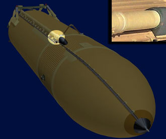 LOX Feed Line (ET)